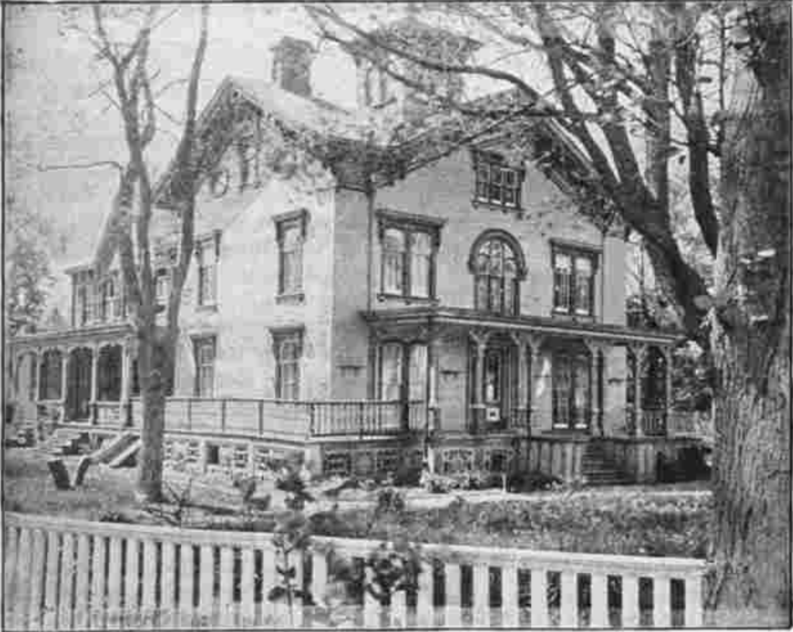 Photograph of the Manresa House, the main building at the Manresa Institute near South Norwalk, Connecticut, which was a Jesuit retreat center on Keyser Island that was established in 1899